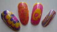 Examples of water marble nail design peacock/heart, in frames( marble on water, heart ), zebra/straight